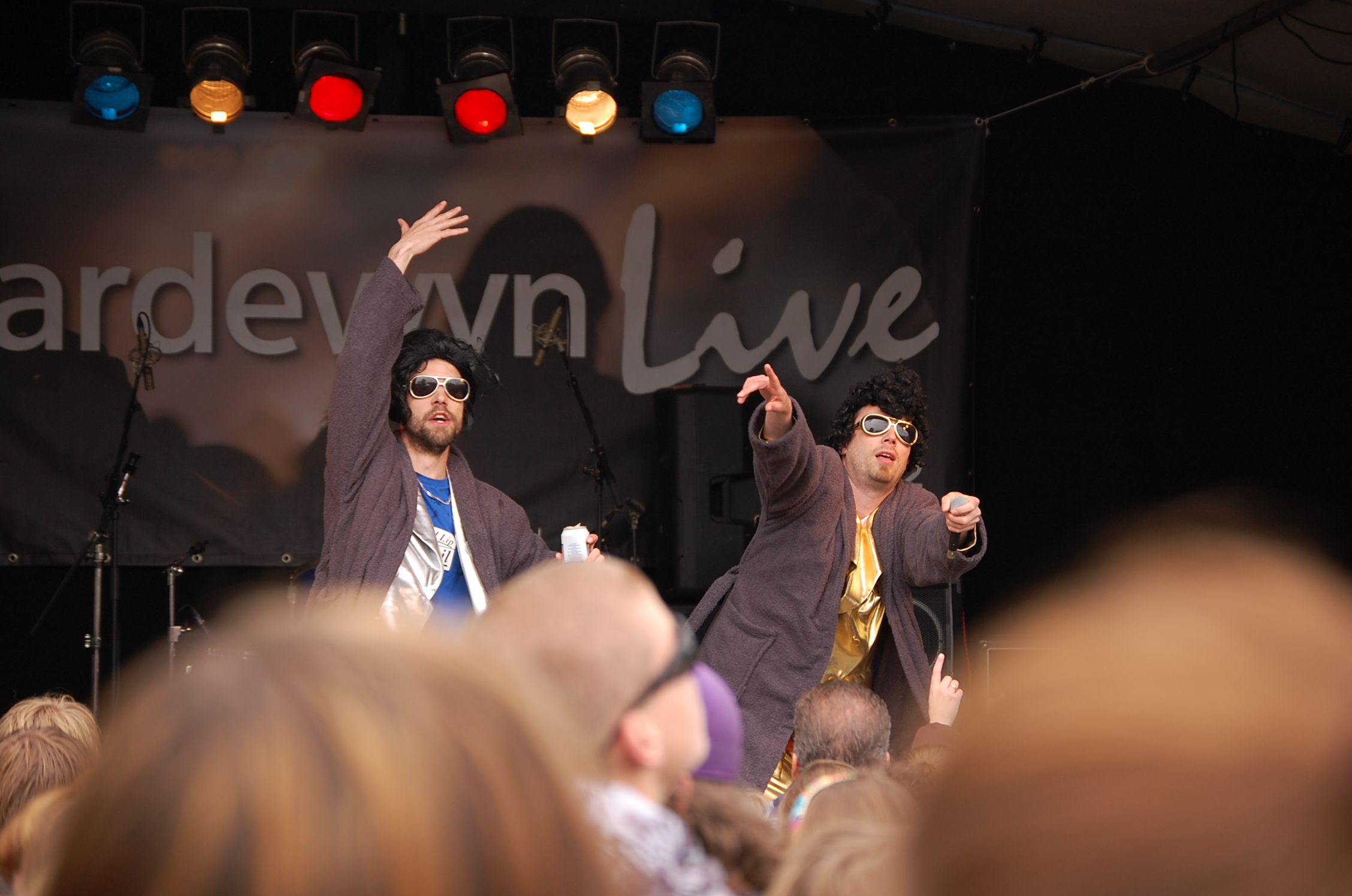 Aart Lus & Ed Lip, dutch dialectro musicians from the Netherlands. Dialectro is a mix of electro en dialect. Photograph taken during the Dutch liberation festival in Leeuwarden.